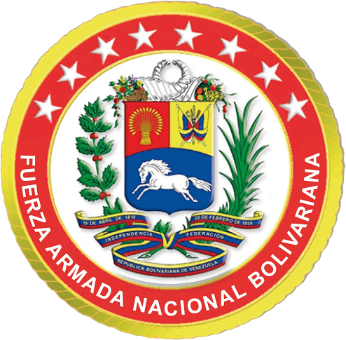 Seal of the Venezuelan Armed Forces